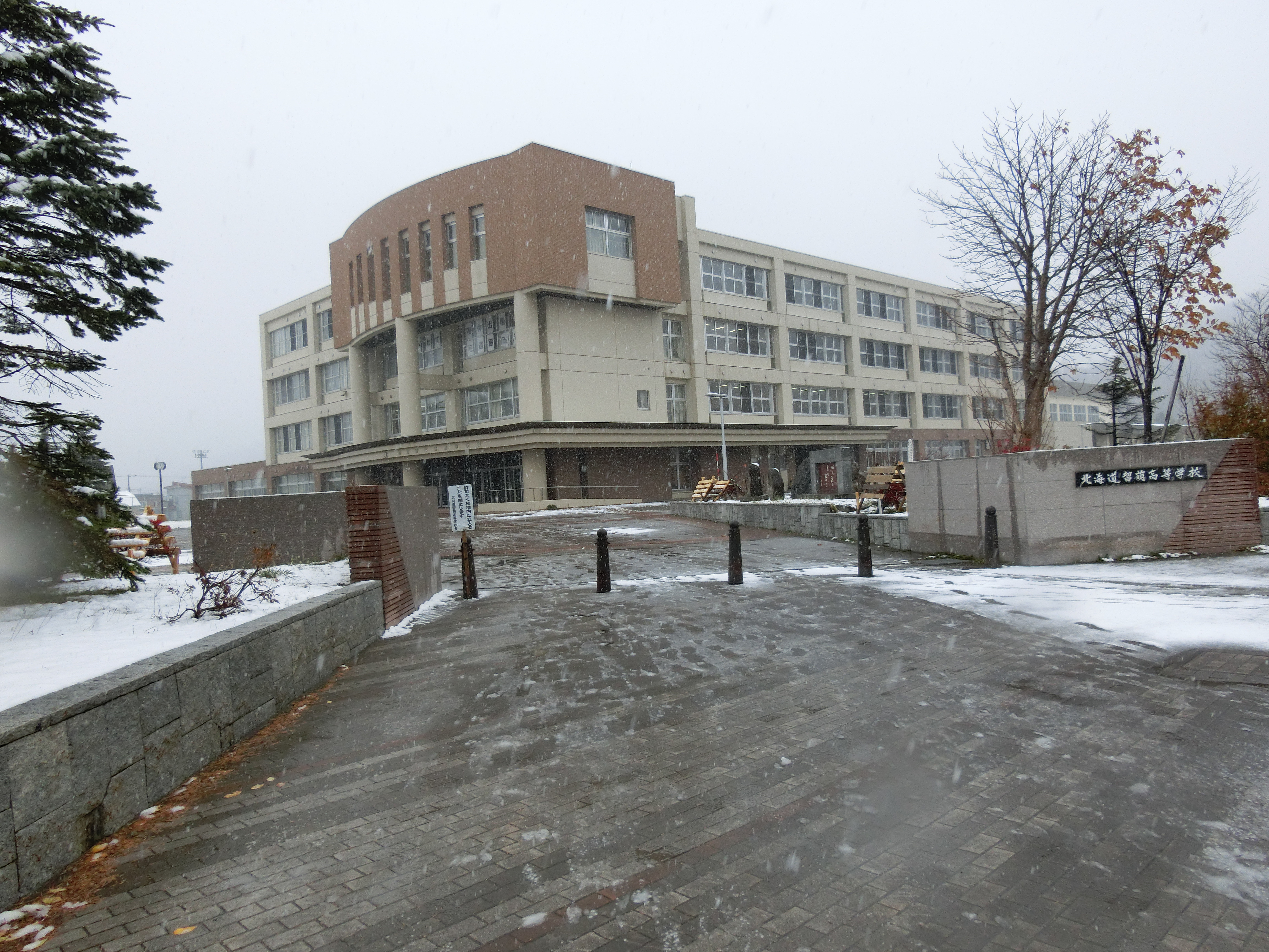 The gate and school building of Rumoi High School. Taken at Rumoi City.